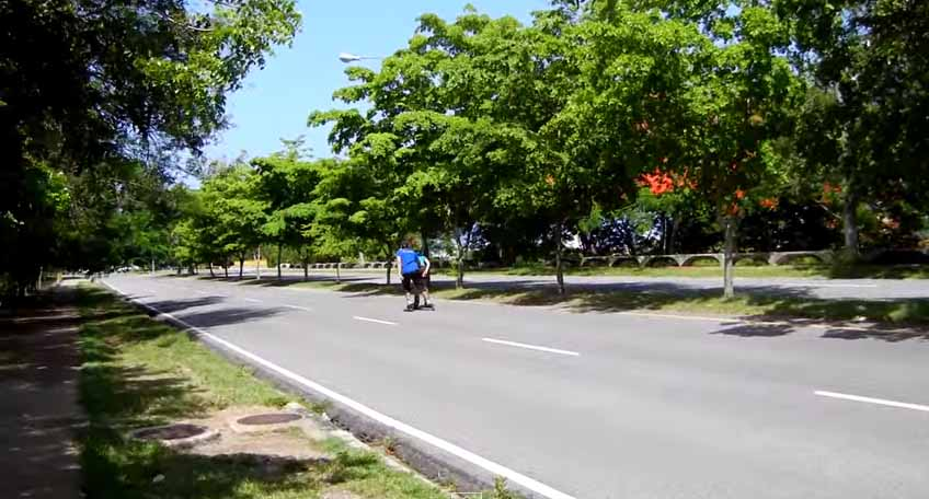 Parque Mirador Sur - Santo Domingo